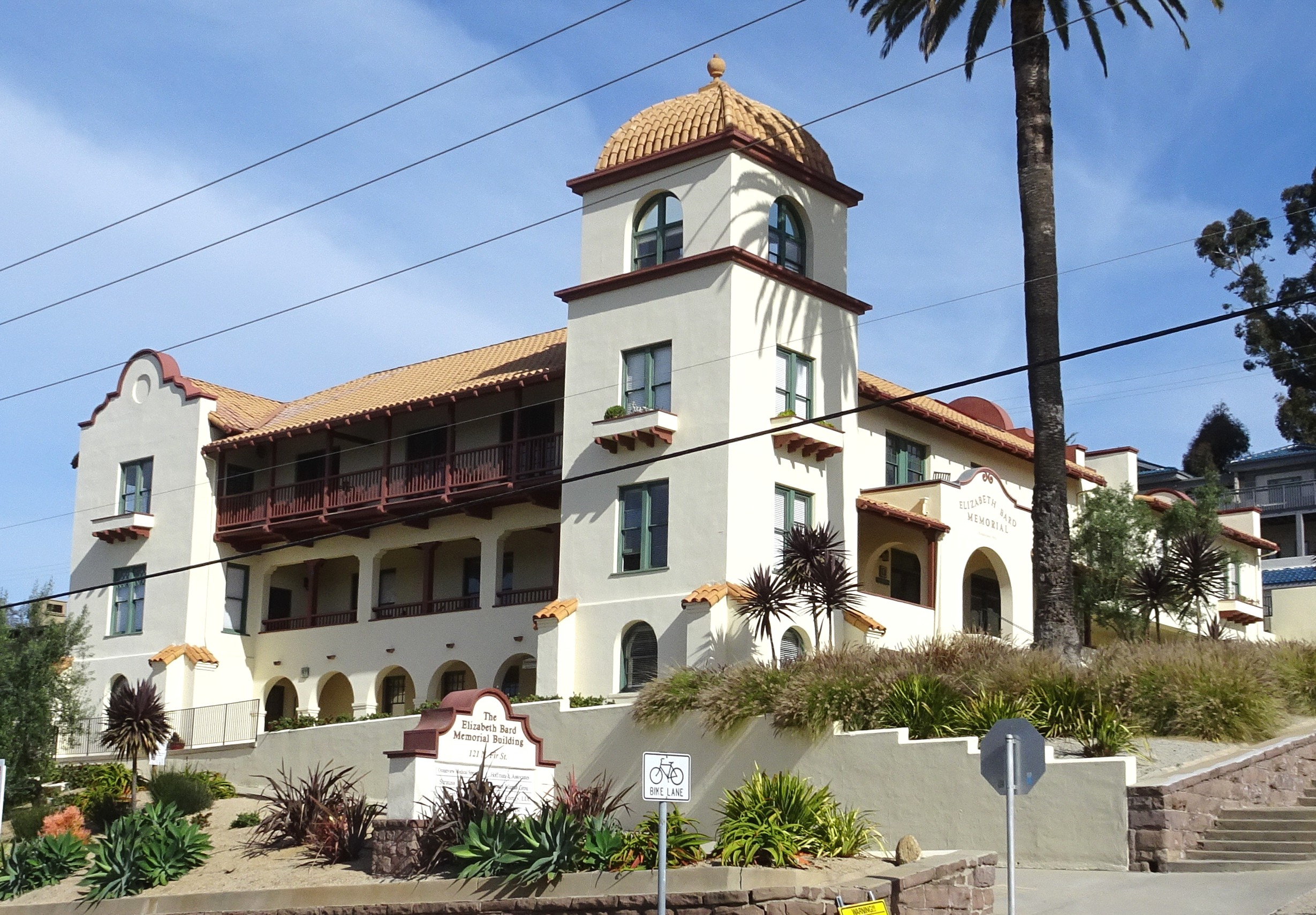 Elizabeth Bard Memorial Hospital, 121 N. Fir Street, Ventura, California